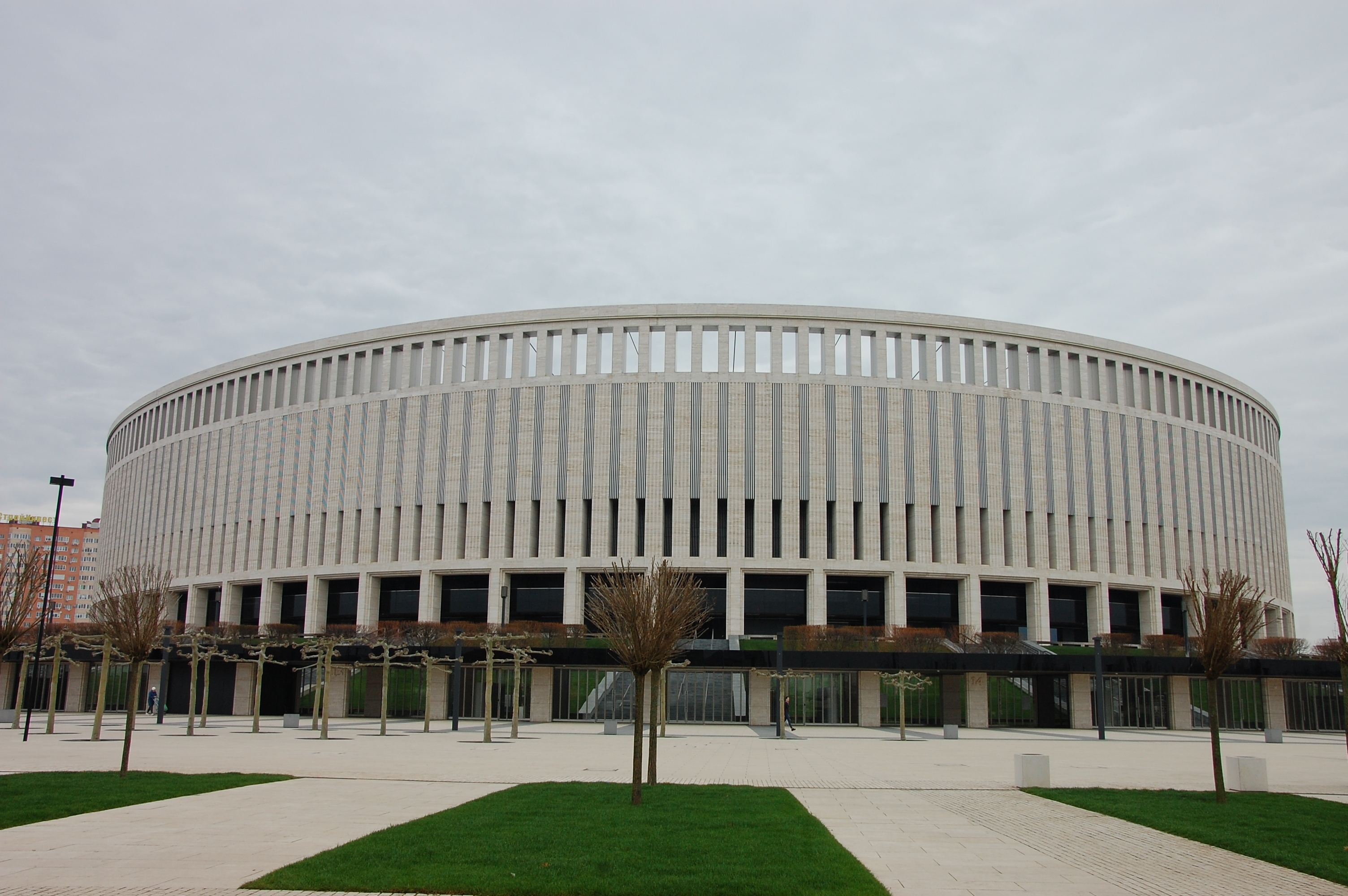 Fk Krasnodar stadion